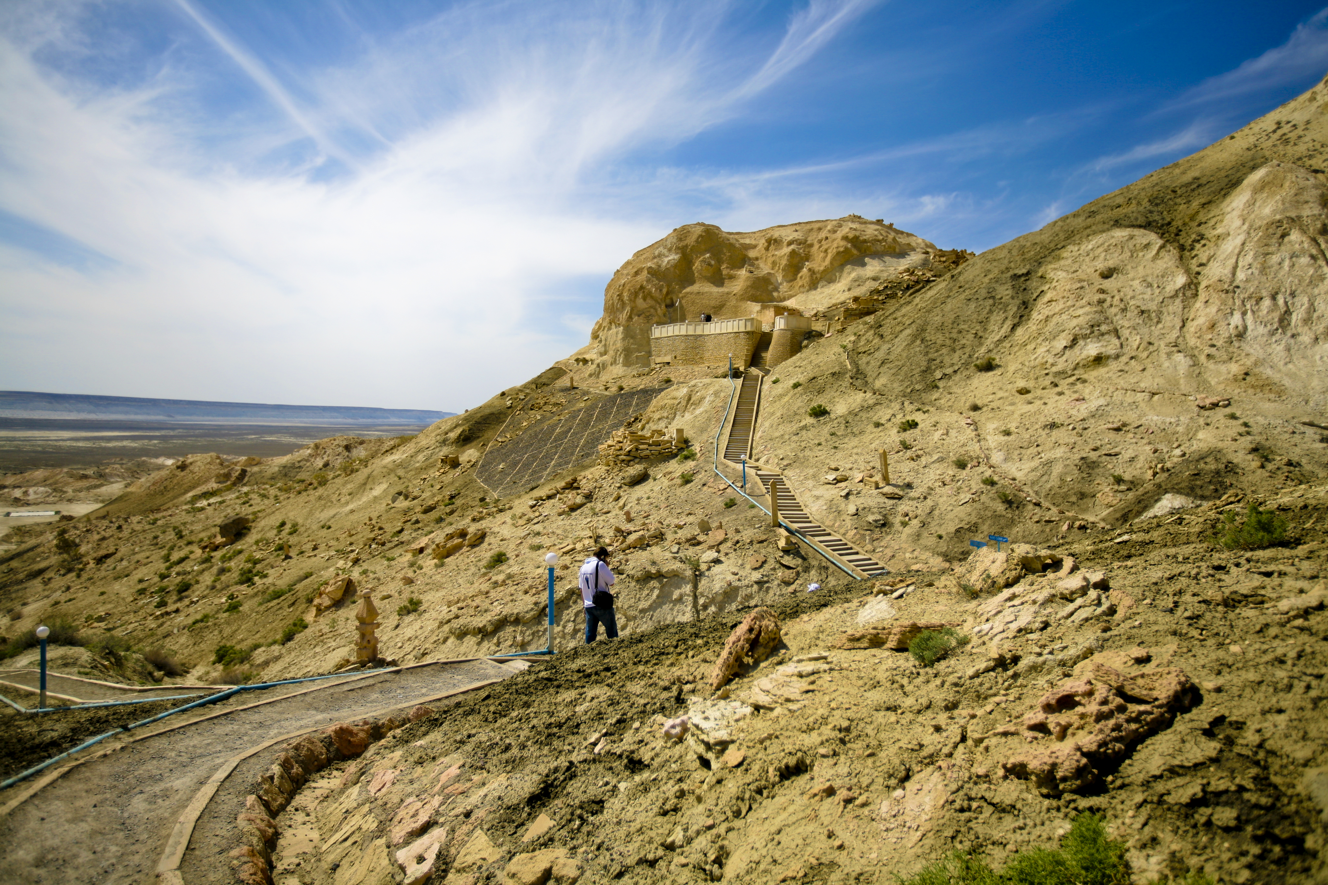 Beket ata mosque. Mangystau region